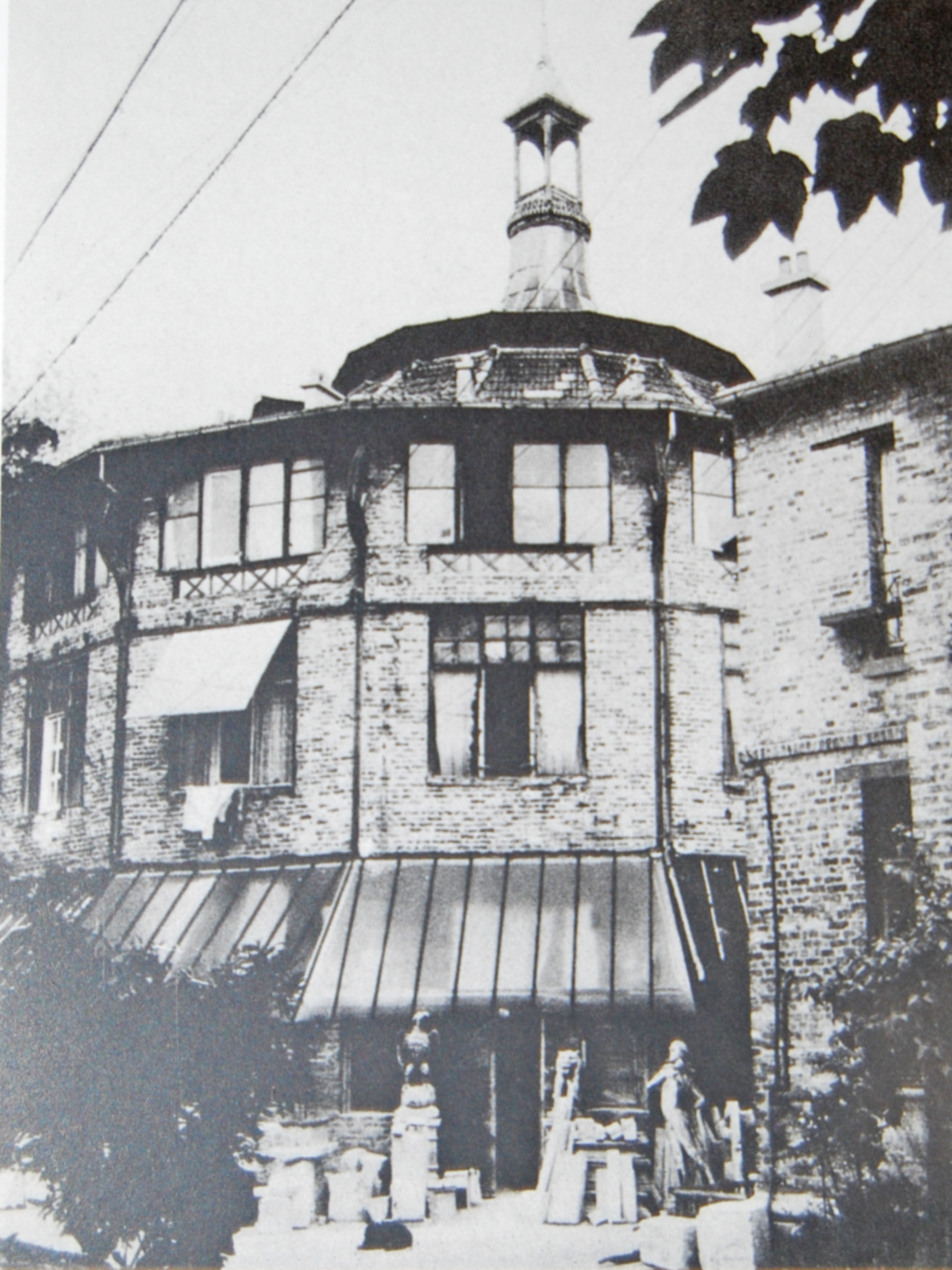 Image of the exterior of La ruche studios in 1918